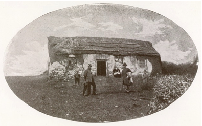 Neuaddlwyd School, near Ffos-y-ffin, Cardiganshire, circa 1880.